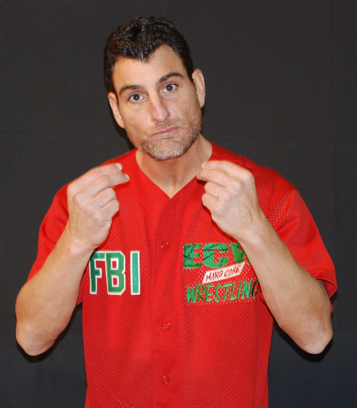 An image of professional wrestler James Maritato.